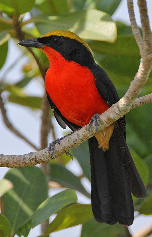 A Yellow-crowned Gonolek in Gambia.